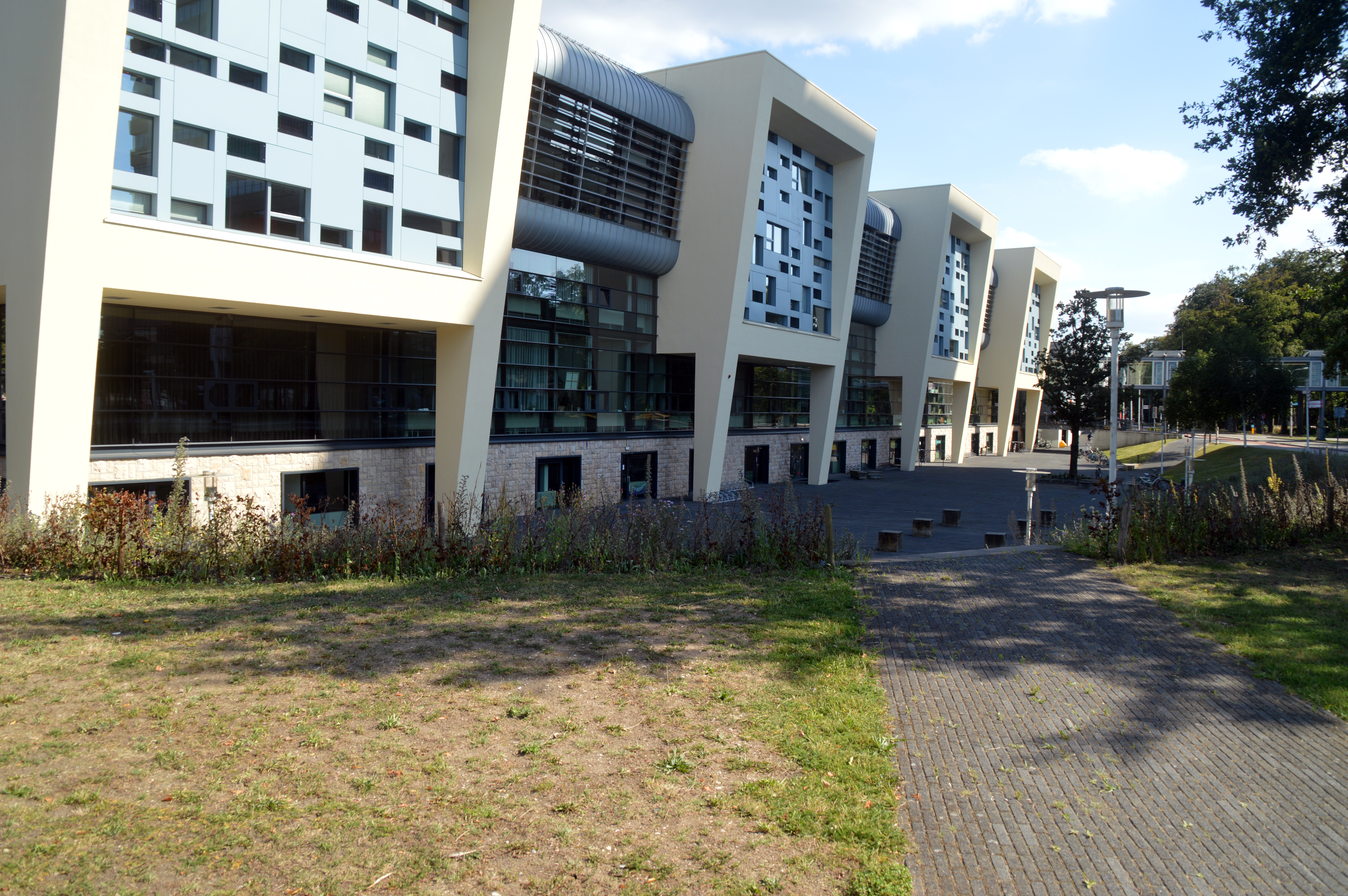 The Gymnasion with in the background the footbridge over the Heyendaalseweg Radboud University Nijmegen